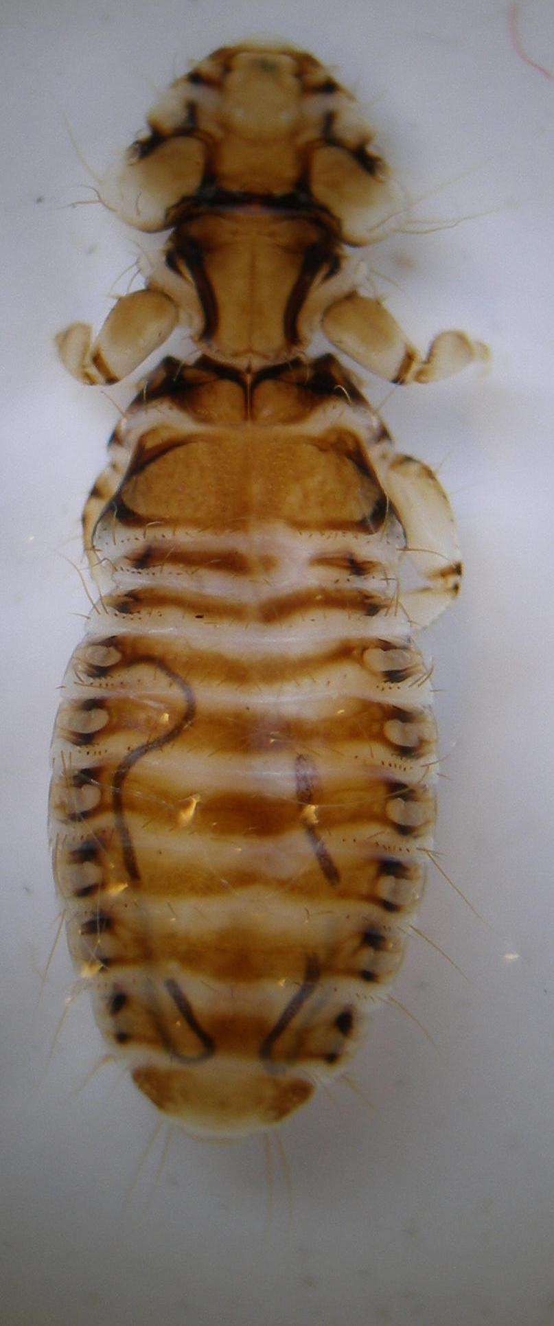 Trinoton anserinum (Fabricius, 1805) collected from a Mute Swan, dorsal view